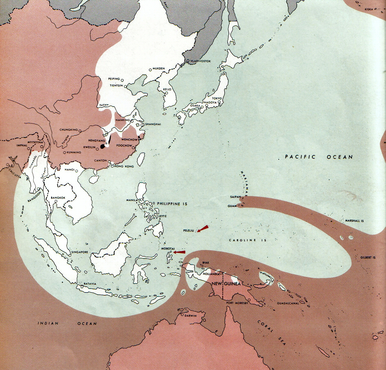 Map of the front against Japan as of 15 Sep 1944: This map is taken from the source "Atlas of the World Battle Fronts in Semimonthly Phases to August 15th 1945: Supplement to The Biennial report of The Chief of Staff of the United States Army July 1, 1943 to June 30 1945 To the Secretary of War". (See Cover, Forward and Map details)